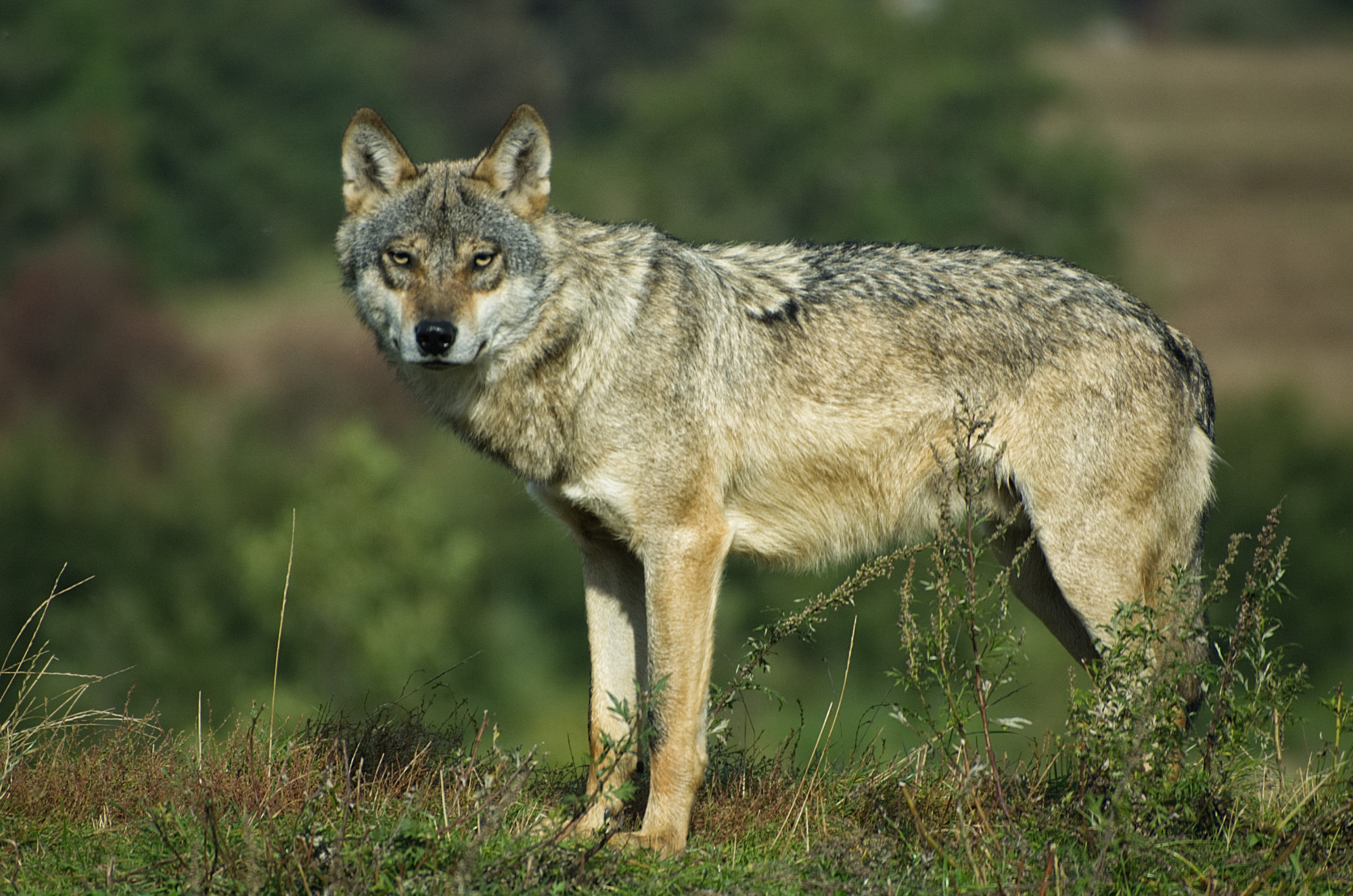 Gray wolf, Canis lupus